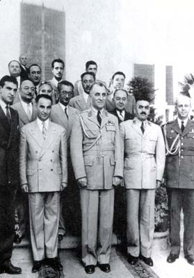 General Fazlollah Zahedi and some coup politicians.